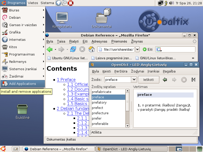 Author: Unknown